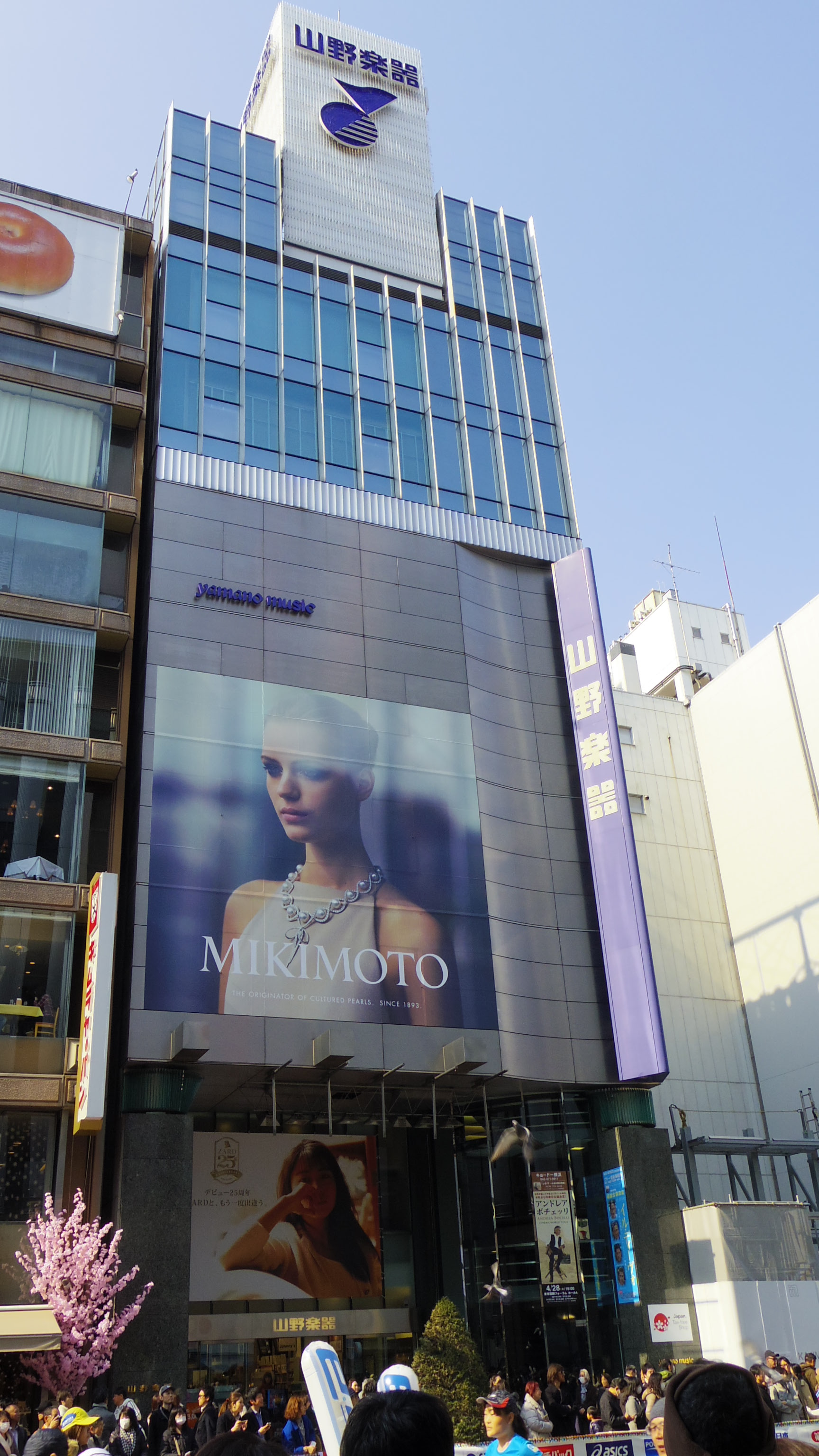 Ginza Yamano Music Main buildings.